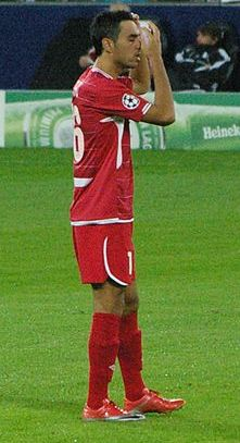 Eran Zahavi playing for Hapoel Tel Aviv in UEFA Champions League, 2010